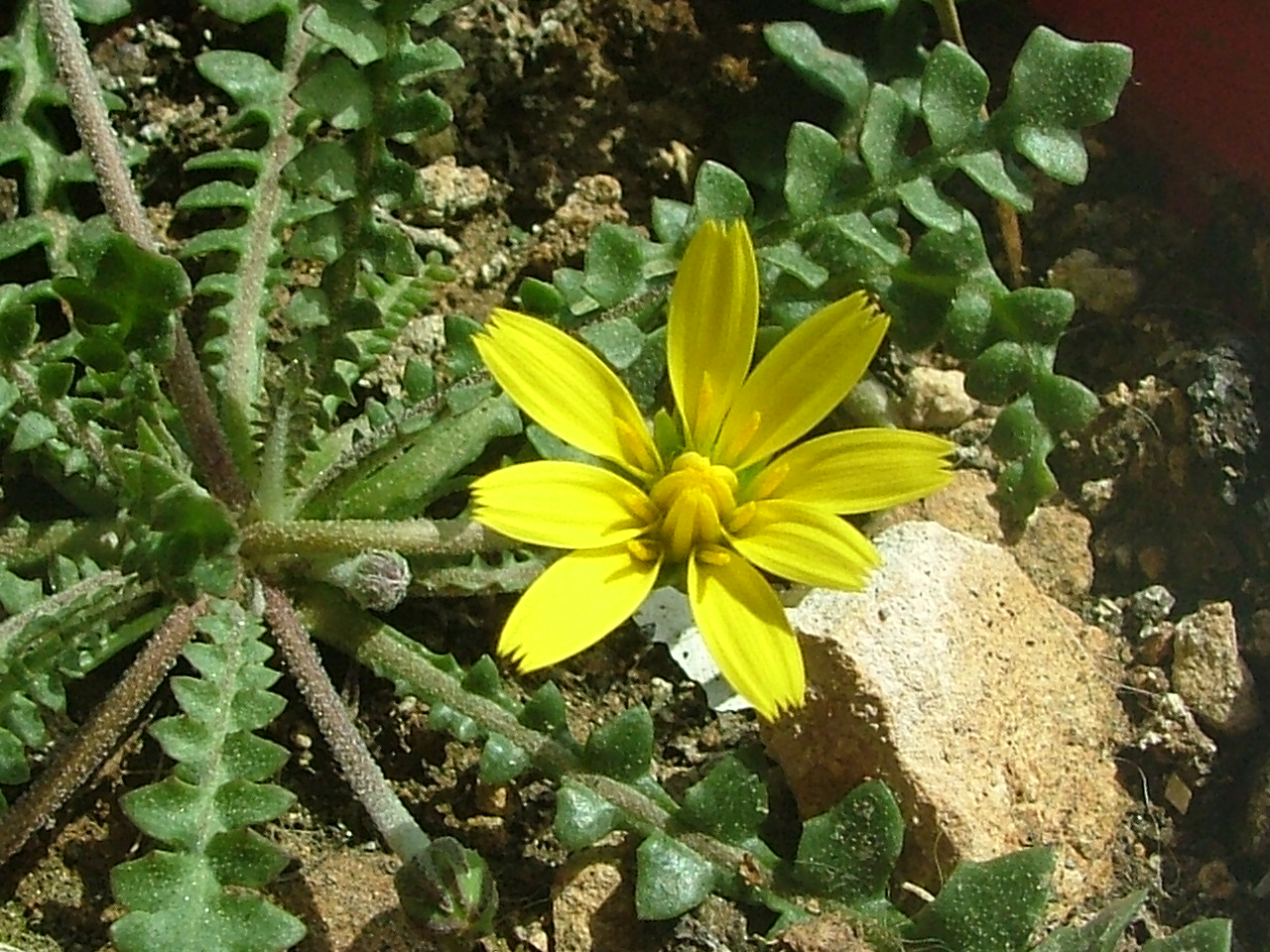 Hyoseris lucida subsp. frutescens with flower